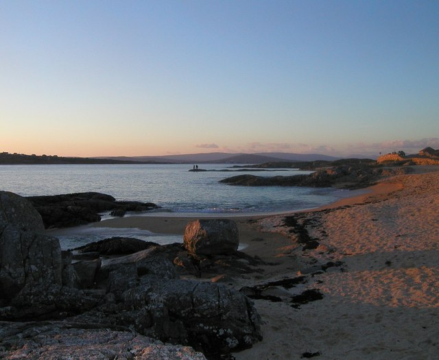 Coral Beach, An Cheathru Rua Theas, Co Galway Although the small beach is not named on the OSI 1:50000 map the locals refer to this beach as Coral Beach, indeed this beach is not sand but made up of tiny crushed and broken fragments of coral, again according to the locals, it's the only coral beach in Ireland.